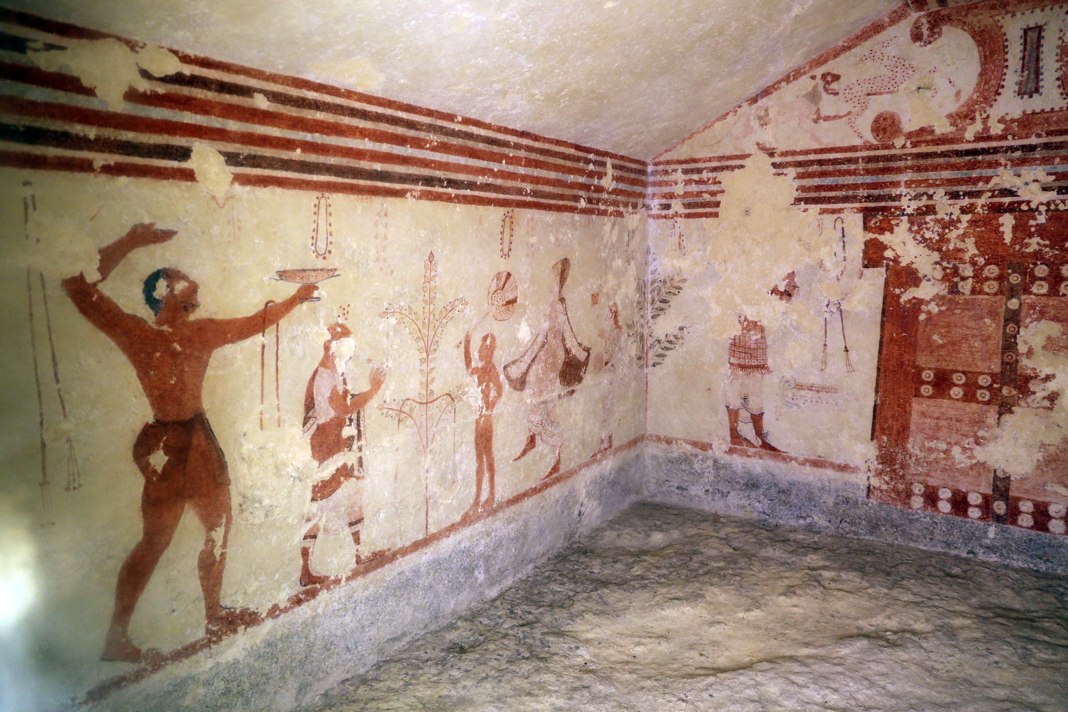 Necropoli dei Monterozzi (Tarquinia)